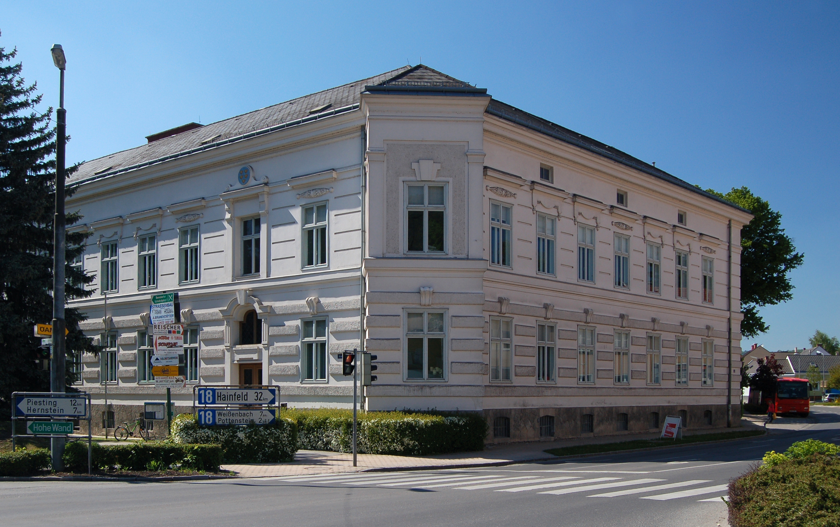 Former primary school in Berndorf, Lower Austria. Built in 1896 by Ludwig Baumann, the building was used as gynmasium from 1910 till 1985. Afterwards special school, music school and municipal library. The building is a cultural heritage monument.